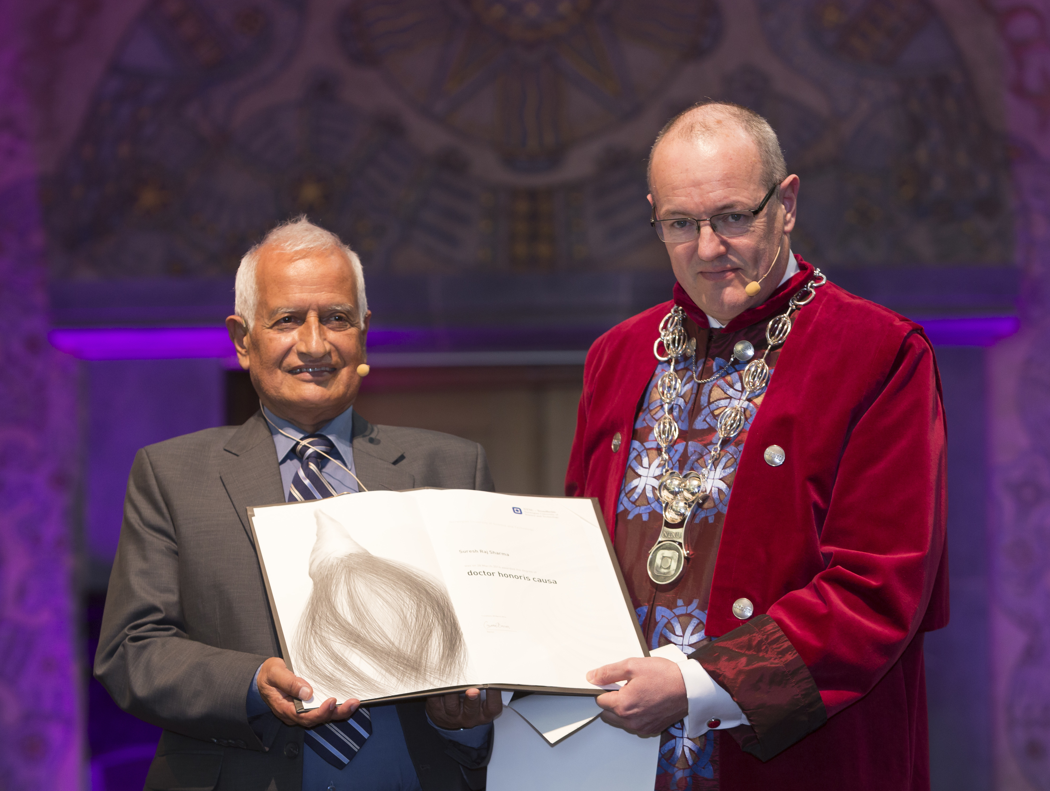 Doctor Suresh Raj Sharma being awarded an honorary doctorate at The Norwegian University of Science and Technology (NTNU) in 20114. Right: Rector Gunnar Bovim